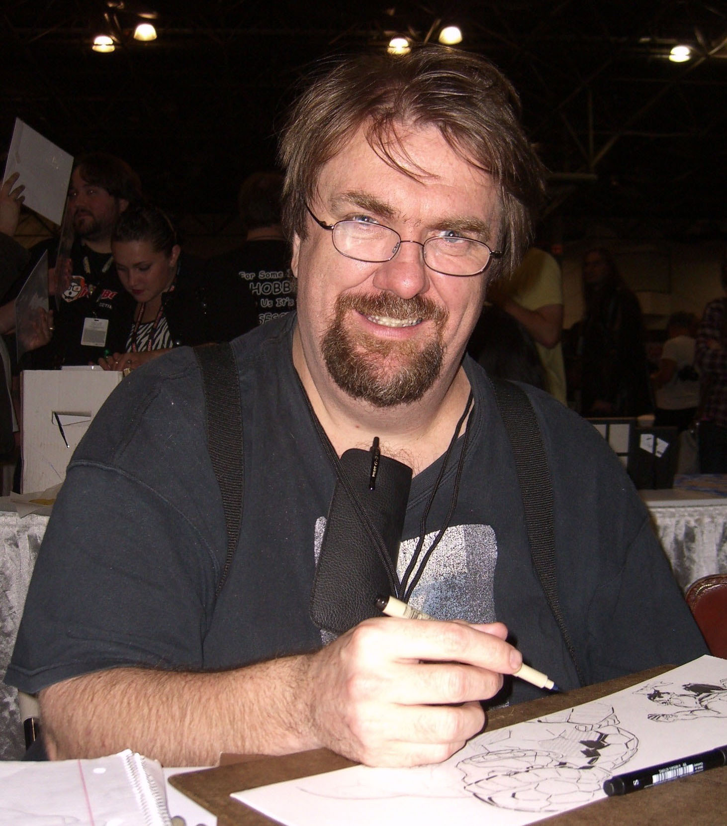 Comic book creator Lee Weeks, at the New York Comic Convention in Manhattan, October 9, 2010. Photo by Luigi Novi. This photo may be used, modified and published for any purpose, only if a easily visible credit to the photographer is placed near the photo in each instance in which it is used. (See licensing information below.) Publication of this photo without this proper attribution constitute copyright infringement. For more information on my photos, you can contact me here.